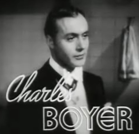 Cropped screenshot of Charles Boyer from the trailer for the film Tovarich.